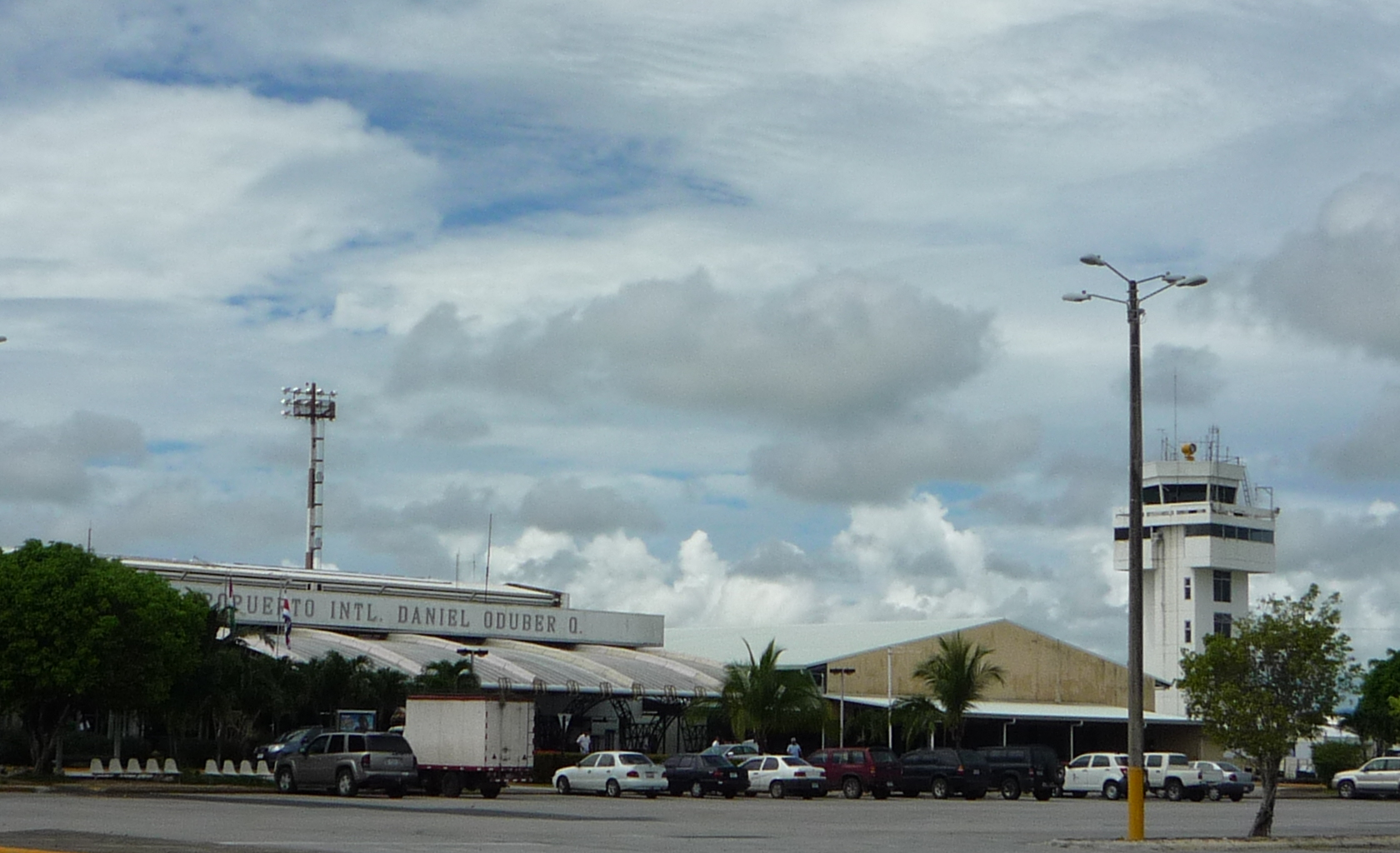 The Daniel Oduber Quirós International Airport near La Rochelle , Costa Rica.